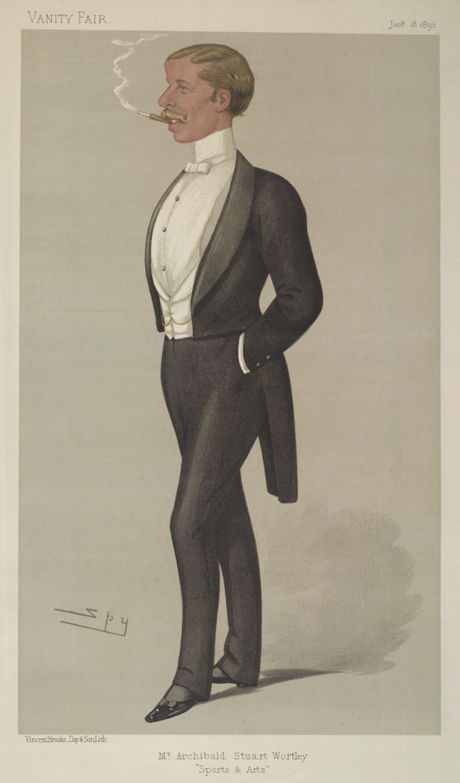 Men of the Day No.457: Caricature of Mr Archibald John Stuart-Wortley. Caption reads: "Sports and Arts"